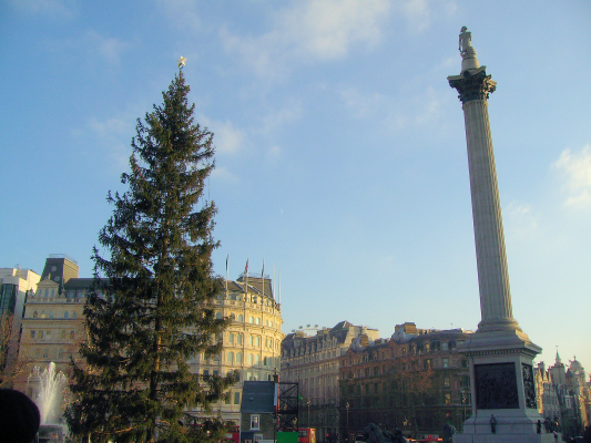 Trafalgar Square Christmas tree, 2007